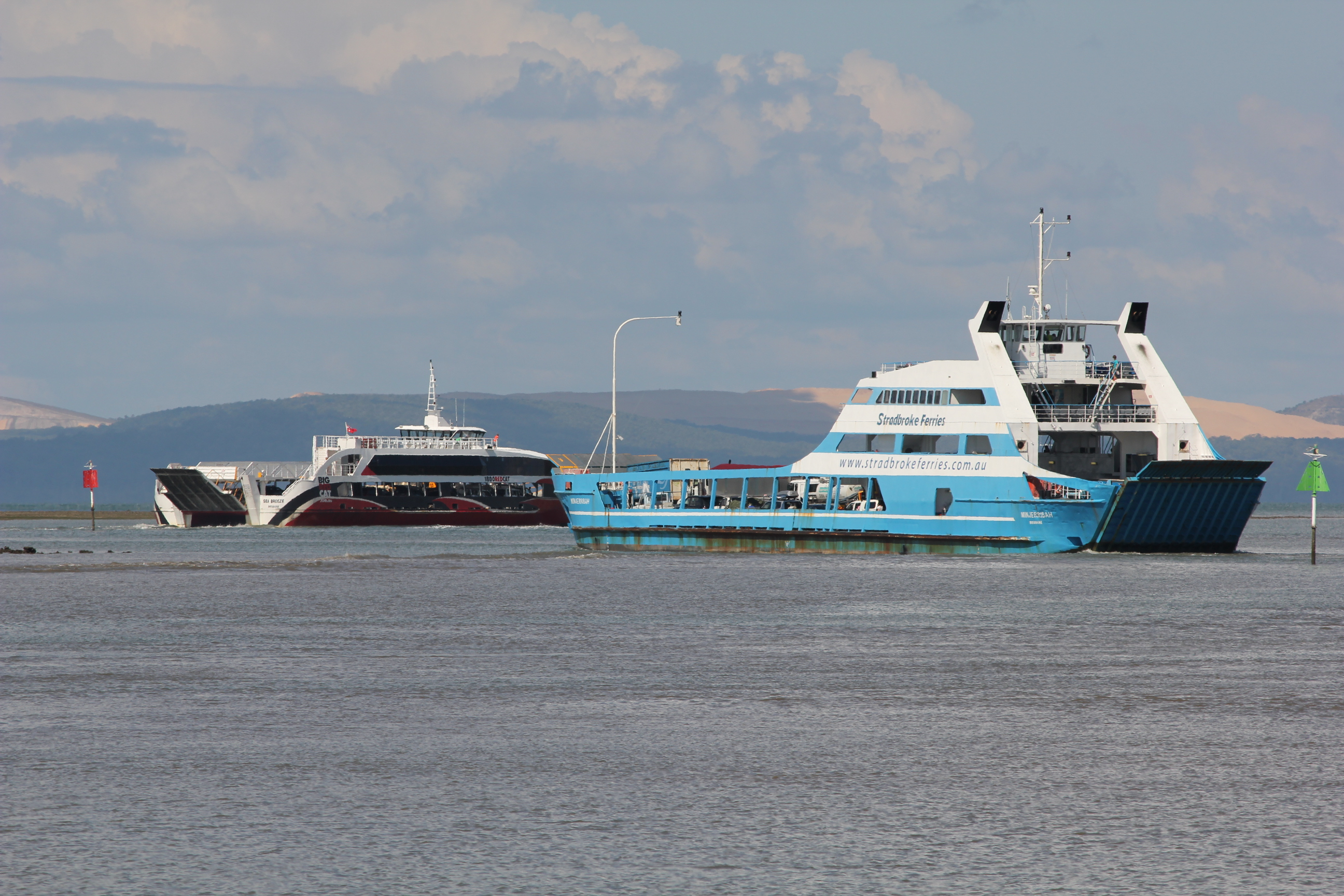 Two Ferrys that connect between Cleveland and Dunwich, North Stradbroke Island.